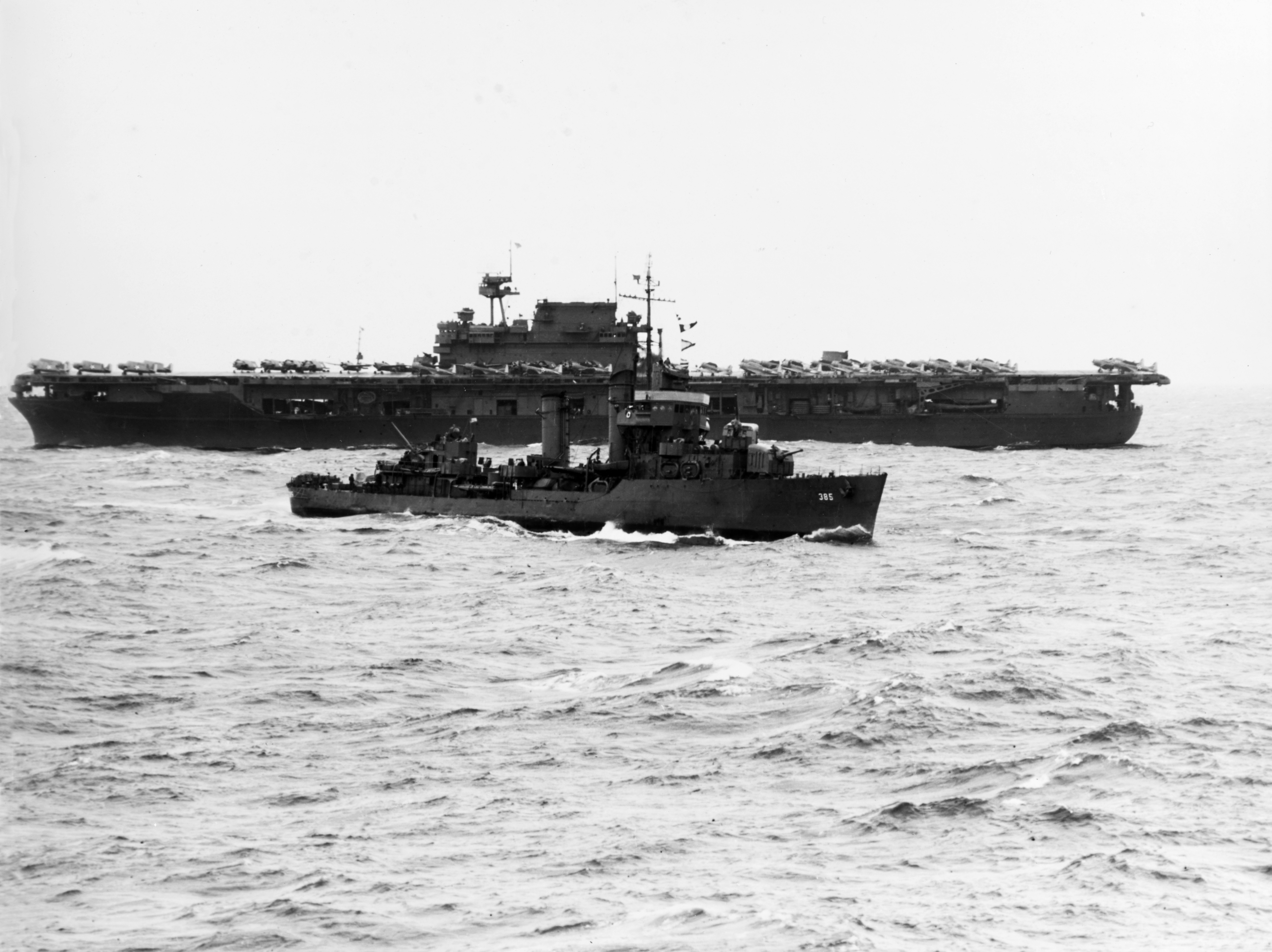 The U.S. Navy destroyer USS Fanning (DD-385) maneuvers near the aircraft carrier USS Enterprise (CV-6) on the day the "Doolittle Raid" aircraft were launched from the USS Hornet (CV-8), on 18 April 1942. The photo was taken from the heavy cruiser USS Salt Lake City (CA-25).